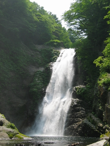 Akiu Great Falls in Taihaku-ku, Sendai, Japan